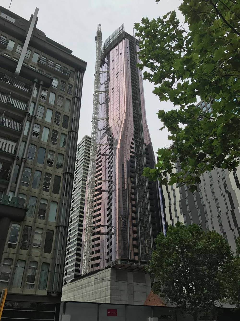 EQ. Tower, a skyscraper, topped-out in Melbourne